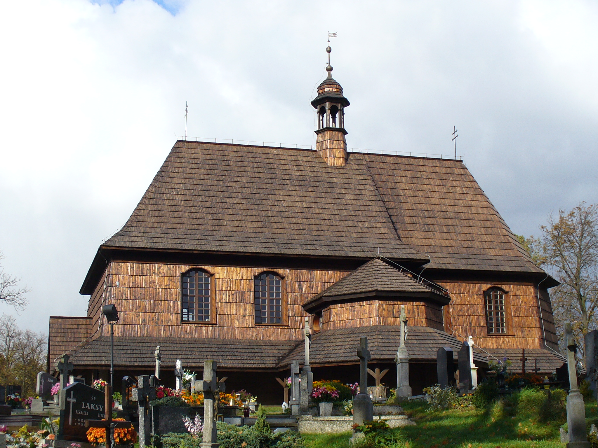 Saint Anne church in Czarnowąsy